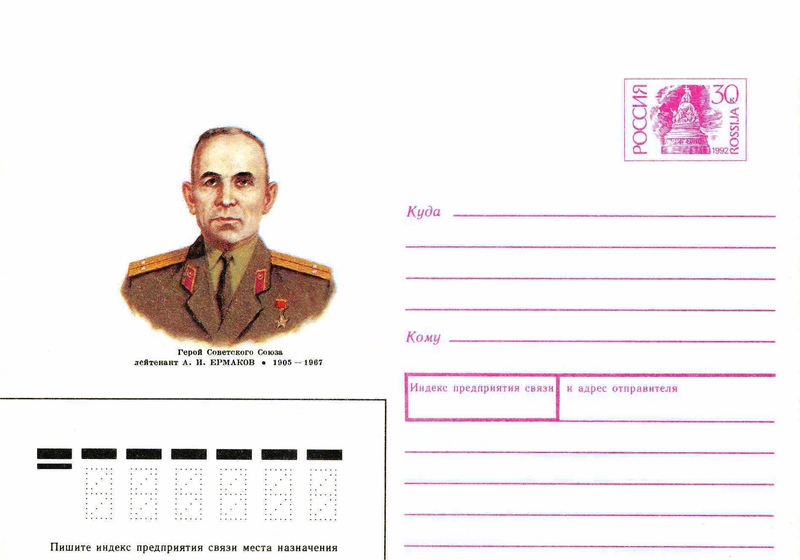 The first illustrated cover of Russia, 1992